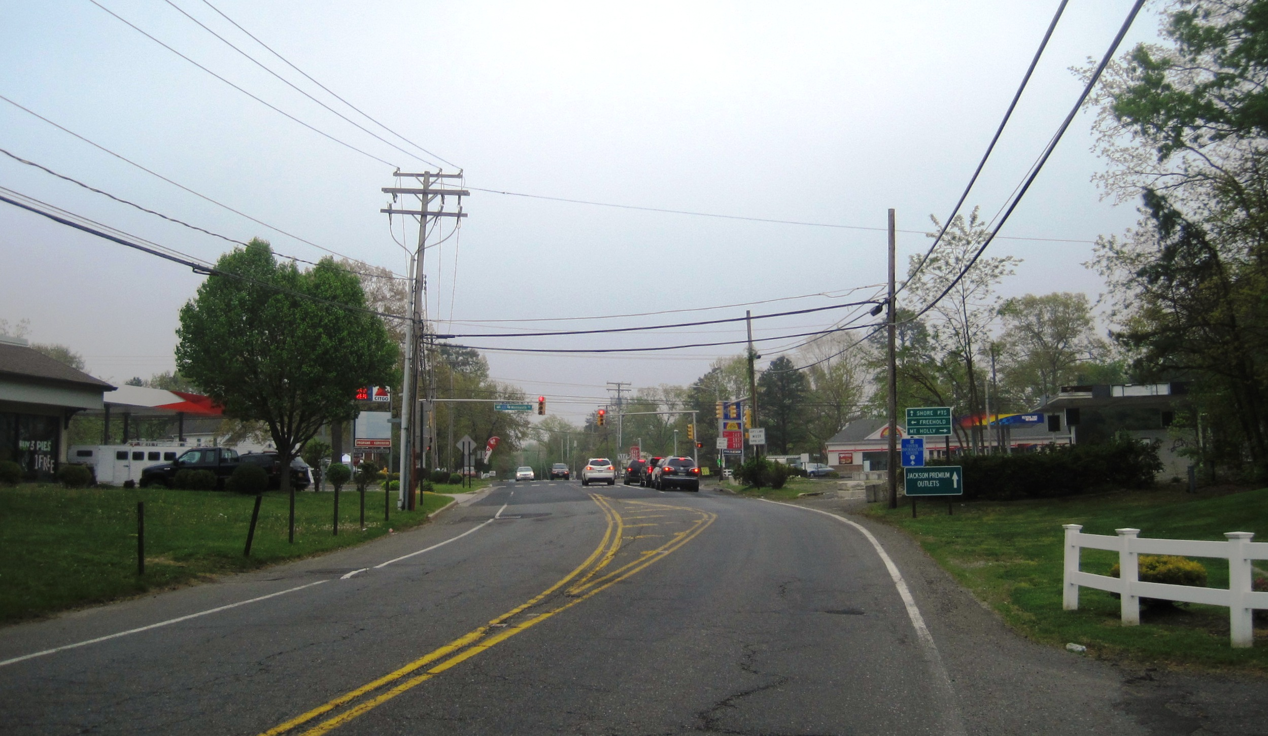 Photo showing Holmeson, New Jersey, an unincorporated community within Millstone Township, Monmouth County and Jackson Township, Ocean County. Photo was taken in Millstone looking east along County Routes 526 and 571 approaching CR 537.